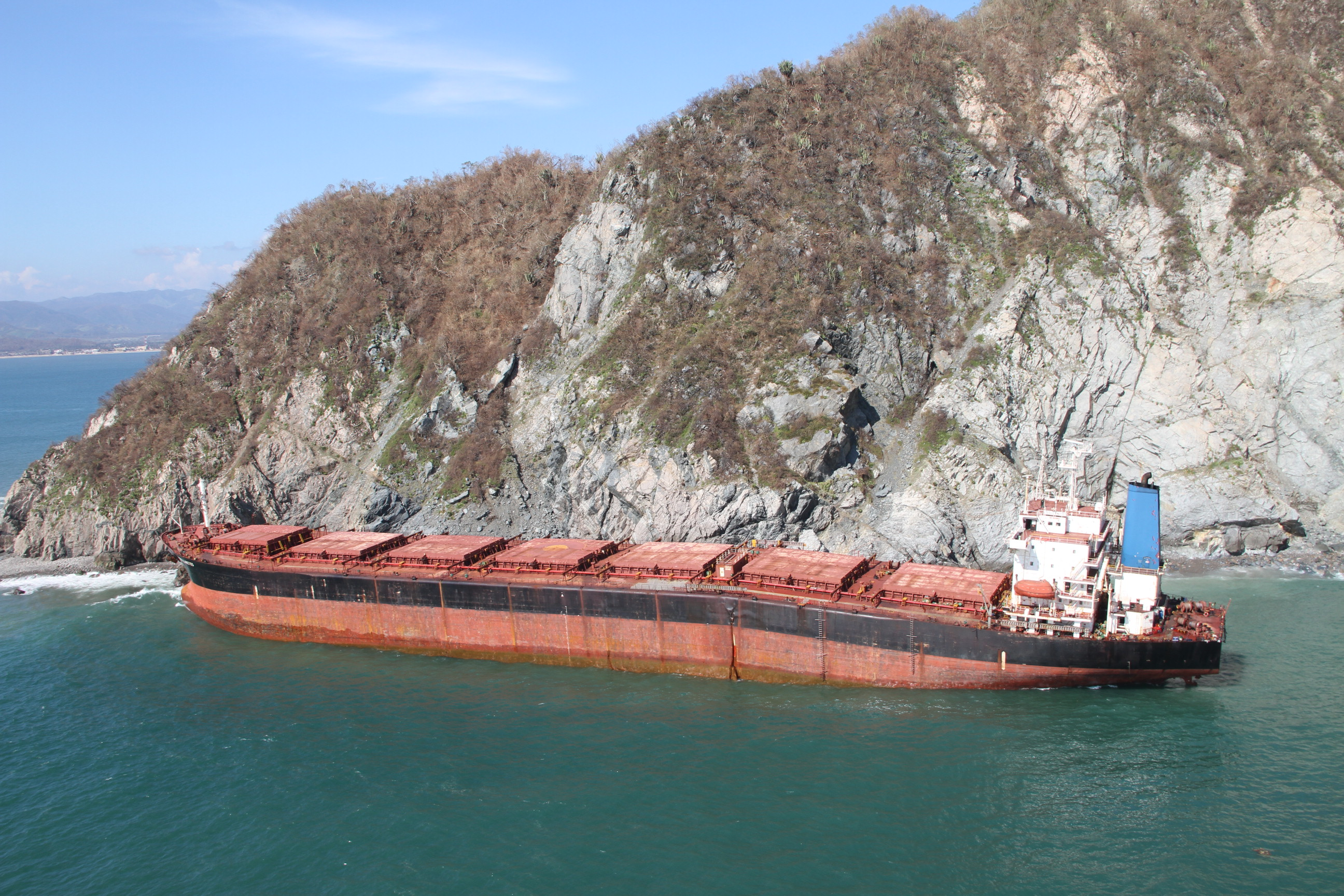 The bulk carrier Los Llanitos grounded in Jalisco following Hurricane Patricia in October 2015